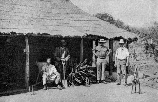 Farmers visiting on a fruit farm in Southern Rhodesia (present Zimbabwe), early 1920s. Photograph taken by the British South Africa Company for an advertisement, presumably to attract new European settlers to its territories in Southern Africa. The BSAC is now defunct.